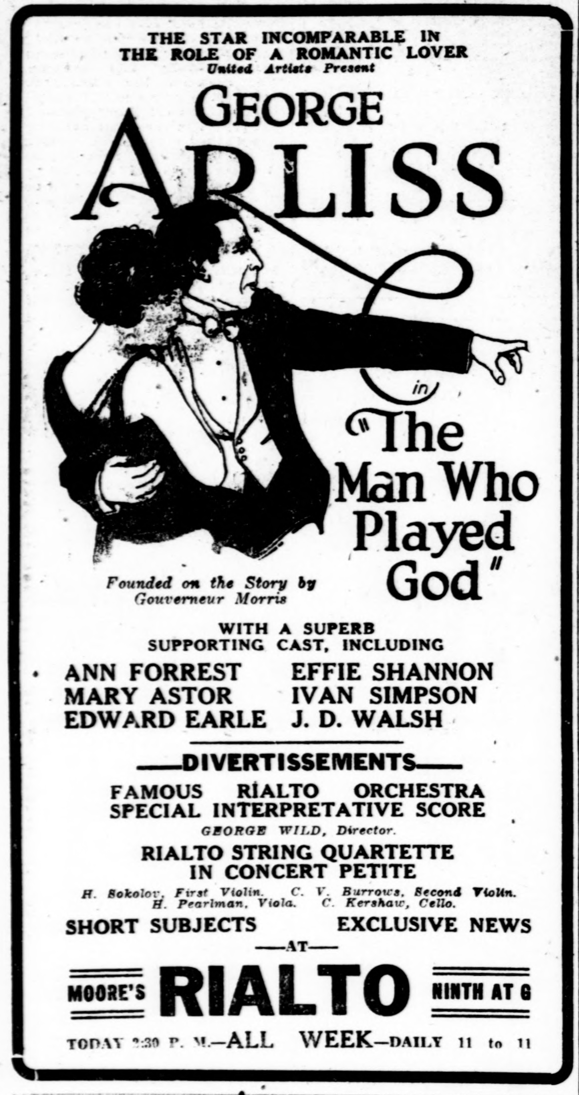 The Man Who Played God is a 1922 American drama silent film directed by F. Harmon Weight and written by Forrest Halsey. The film stars George Arliss, Ann Forrest, Ivan Simpson, Edward Earle and Effie Shannon. This is a contemporary newspaper advert for the film.